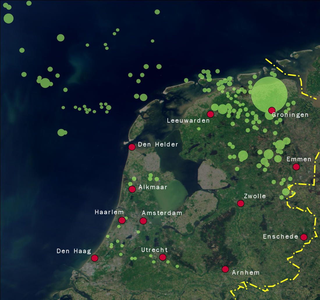 Map of Natural Gas concessions of the NAM in the Netherlands. Source of concessions is Shell/NAM, at